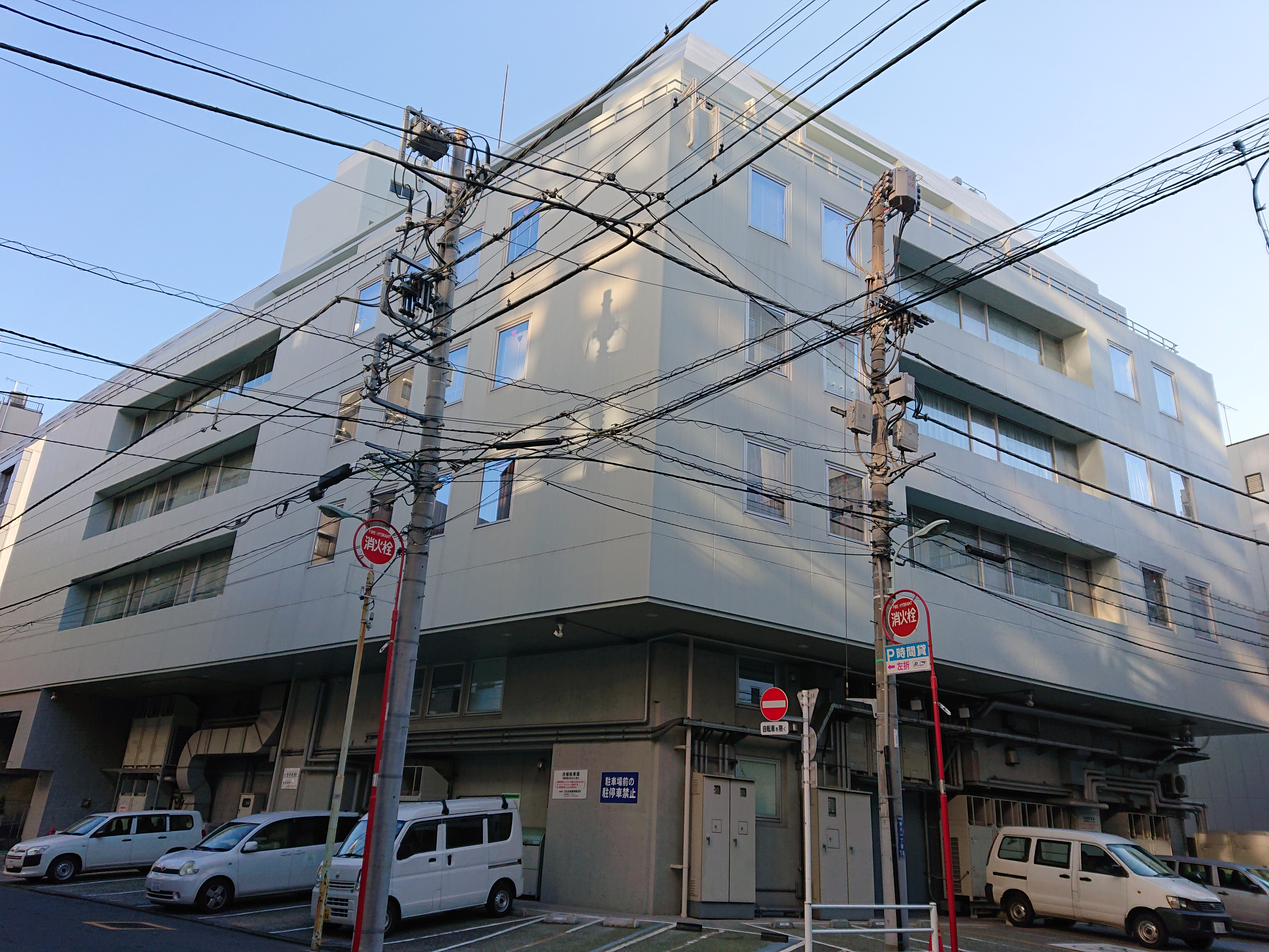 Kokkan Building（國冠ビル), located at 1-14-1 Shinkawa, Chuo, Tokyo, Japan